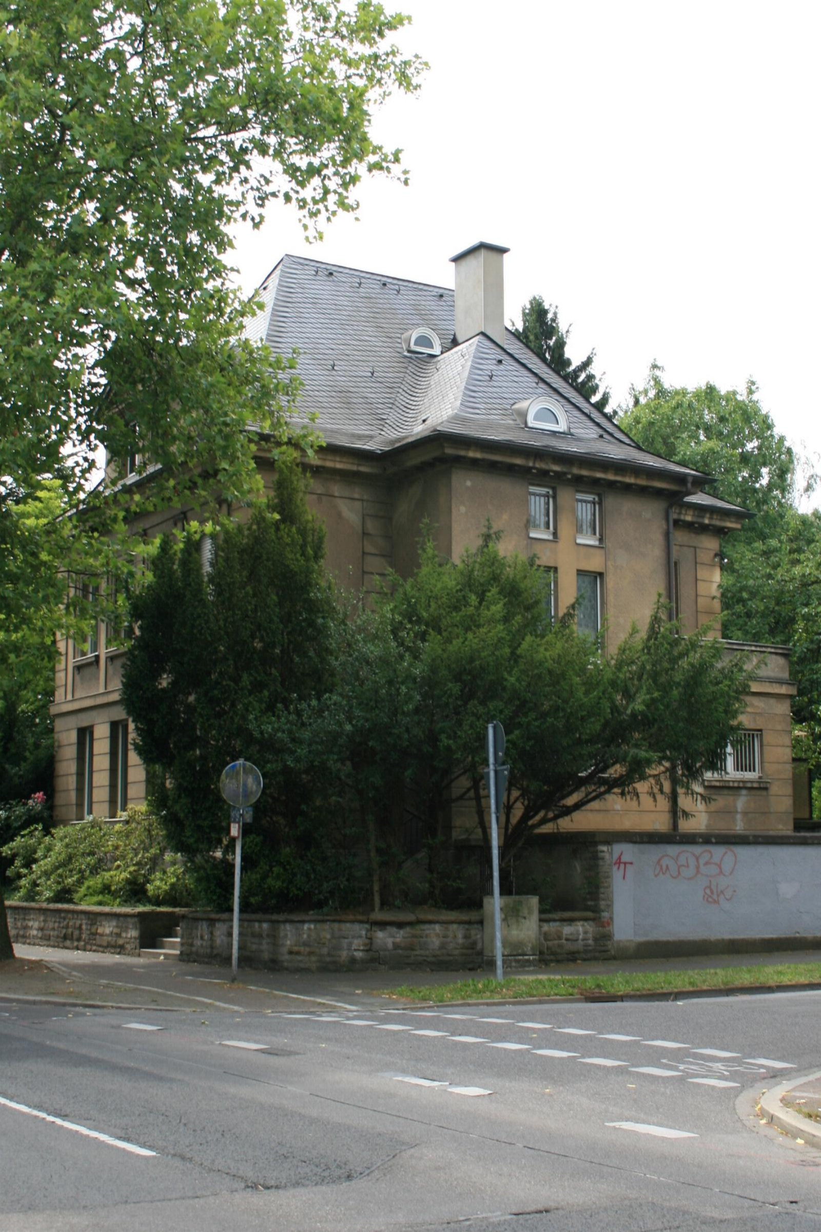 Cultural heritage monument No. G 026 in Mönchengladbach